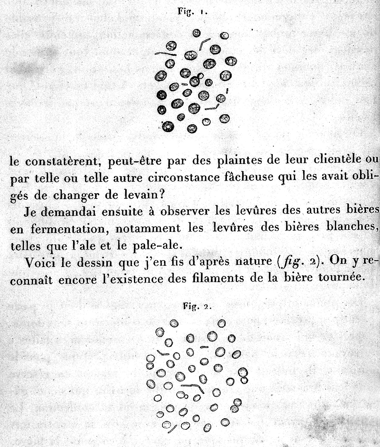 Bacteria General Collections Keywords: Bacteriology; Louis Pasteur